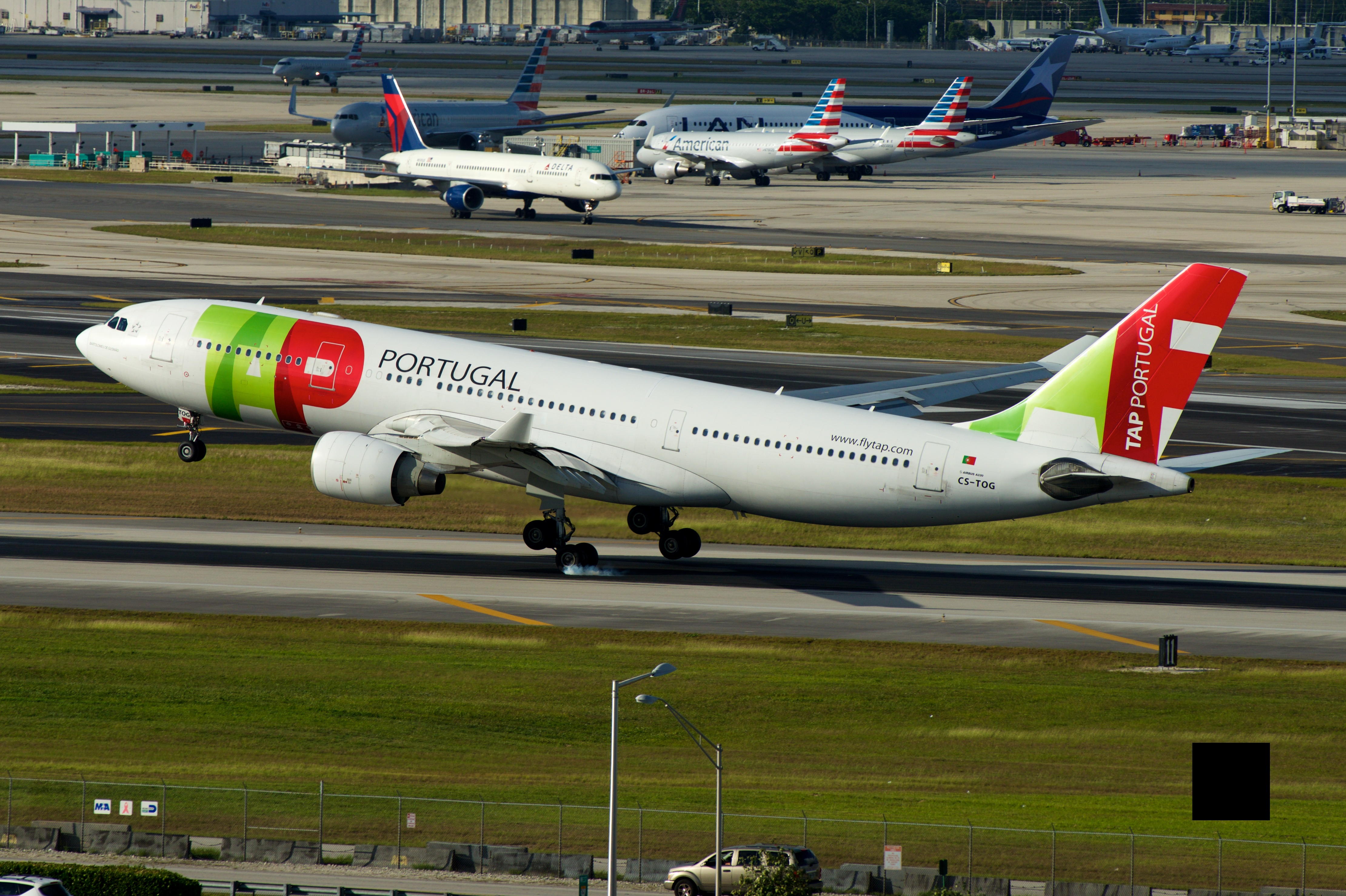 Touchdown! MIA